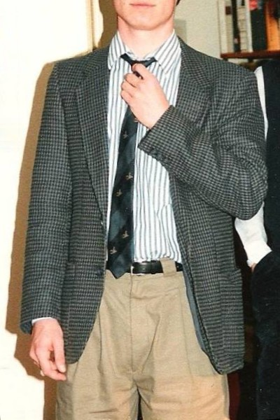 Sports jacket worn in combination with chino trousers